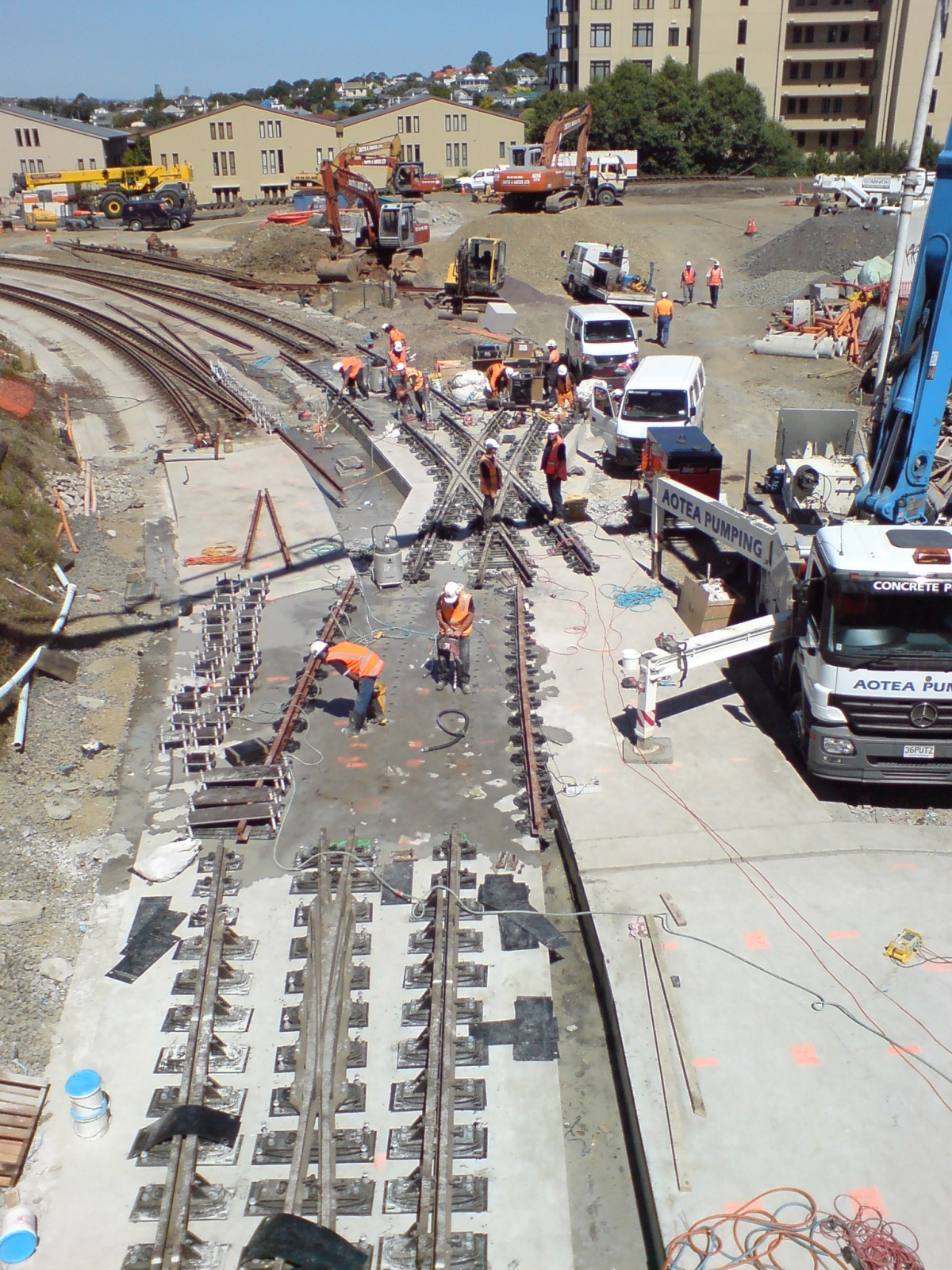 The new rail triangle near Newmarket Train Station in Auckland City, New Zealand. Closer to being finished now, with new tracks just being welded in place in this section. Note all the rectangular rubber pads for installation under the track of the tight curve. This is to ensure that the future building above doesn't get all shaken out of joint every time a train passes by underneath...